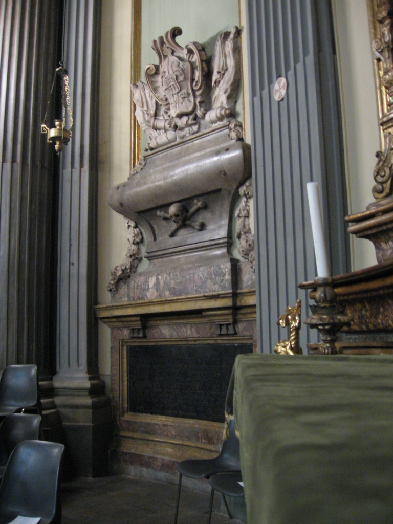 Tomba del maresciallo Rehbinder.